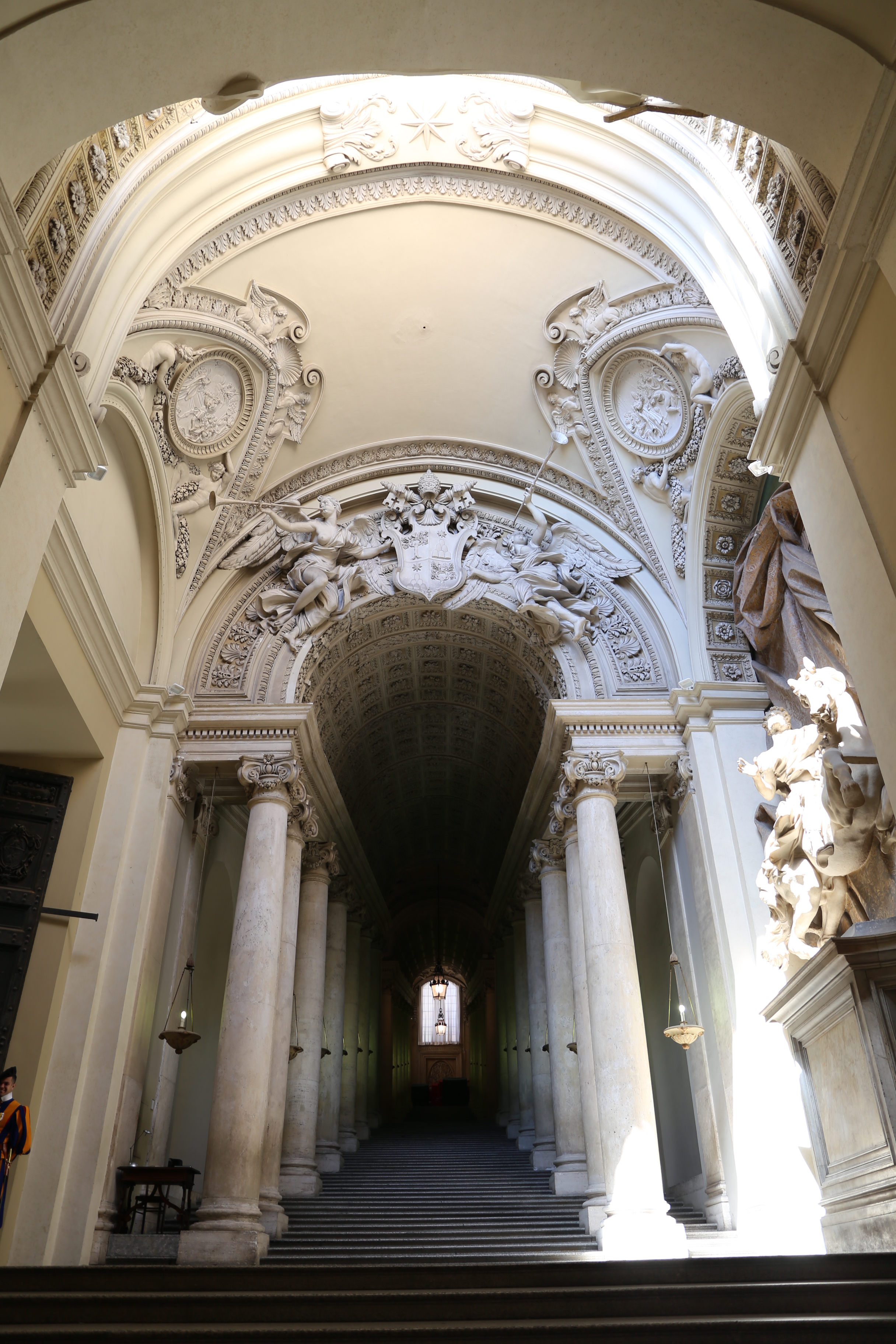 Scala Regia